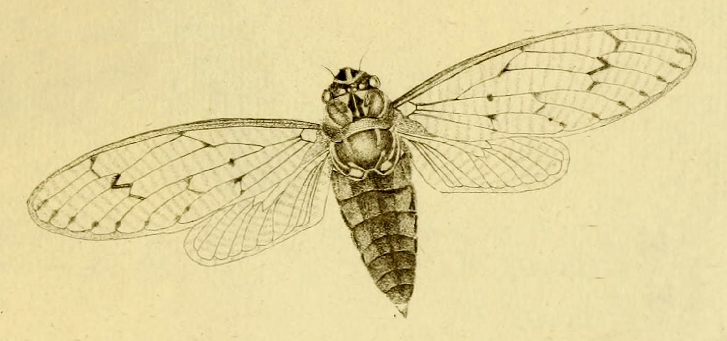 Pomponia picta (Walker, 1868)